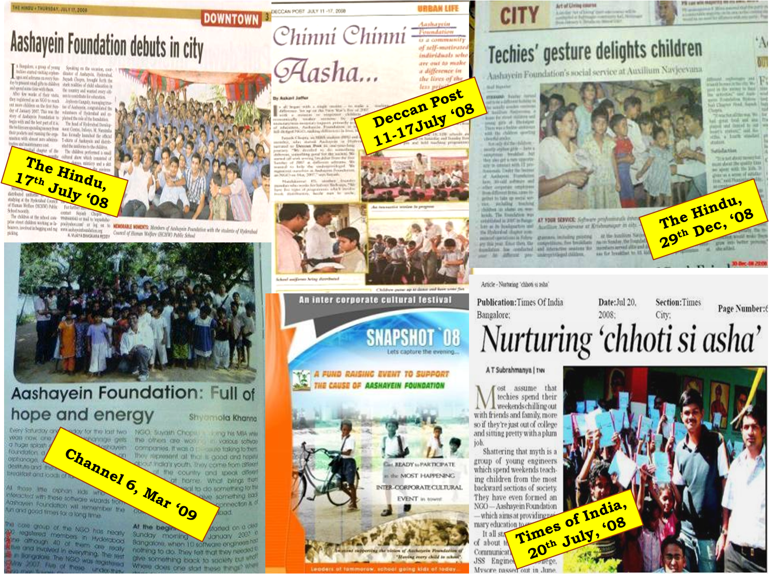 achievements